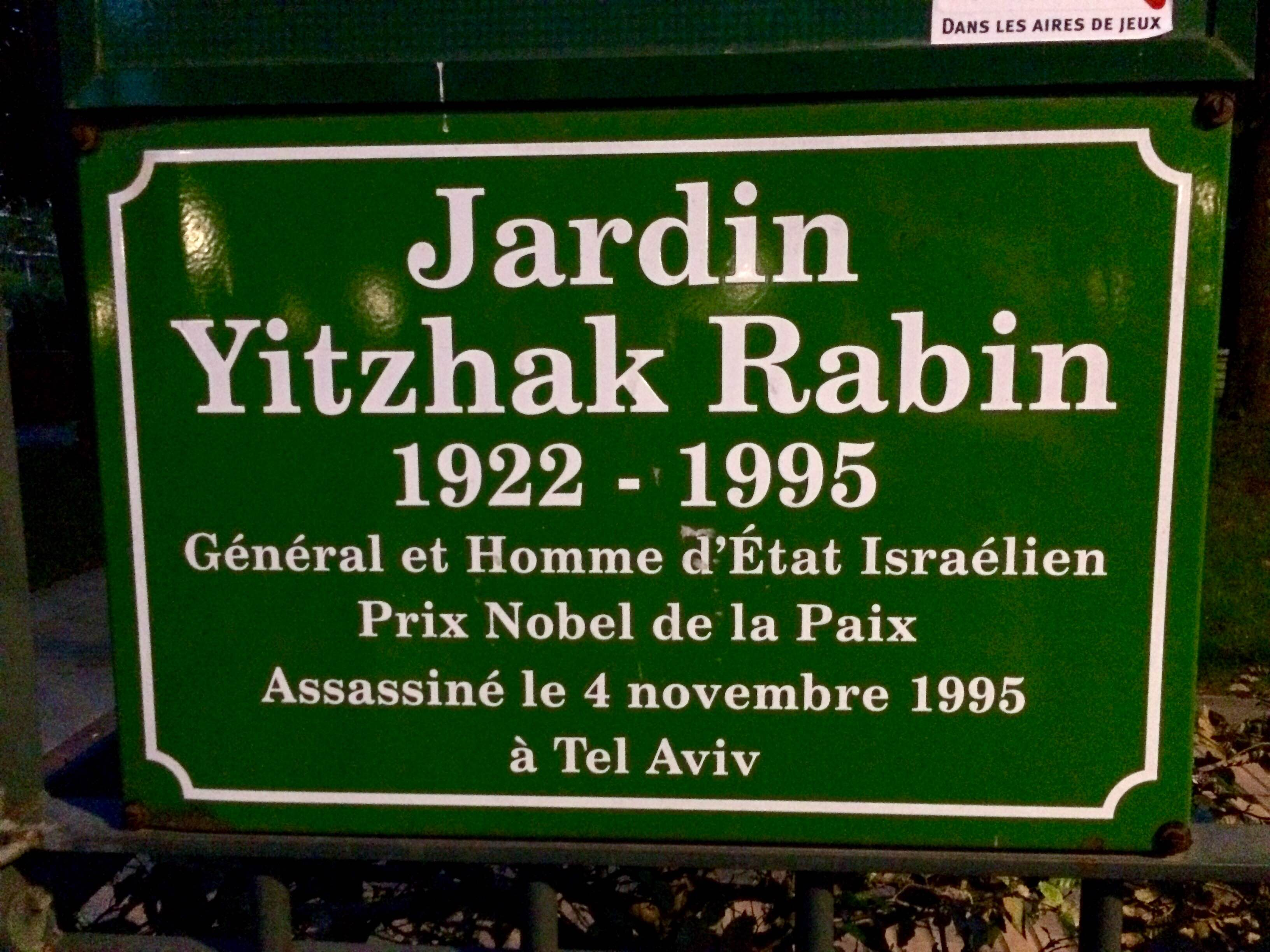 שלט הכניסה לגינה לזכרו של רבין